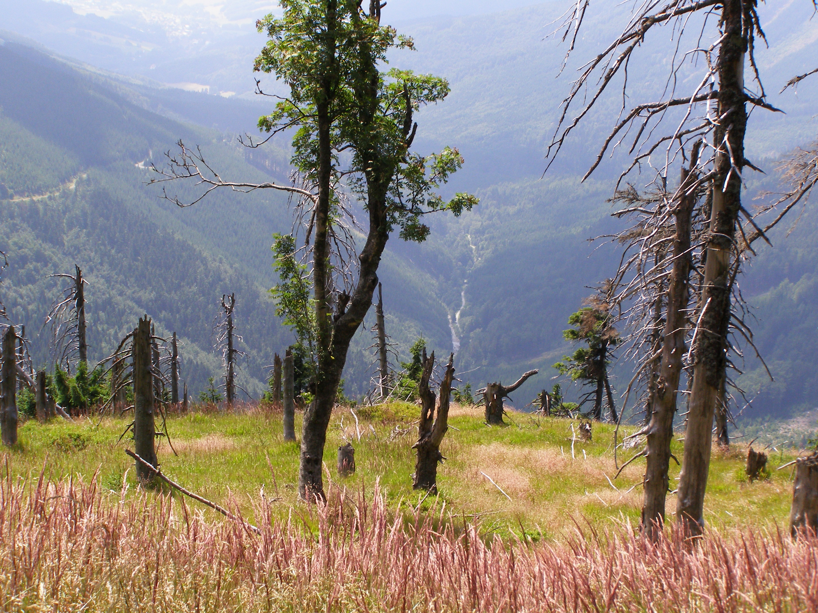 krajina vrcholových partií Jeseníků